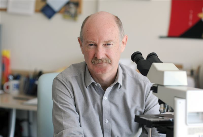 Neuroscientist Rafael Yuste at his microscope